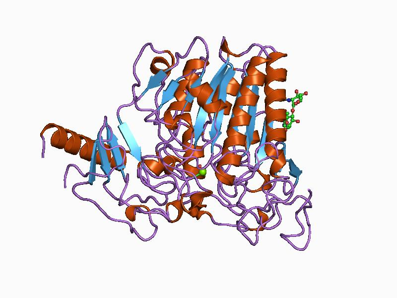 Cartoon representation of the molecular structure of protein registered with 1auk code.